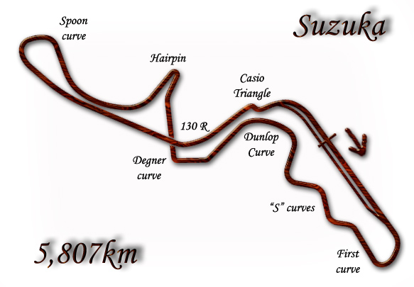 Diagram of the Suzuka International Racing Course after modified in 2003, hosted the Japanese Grand Prix from 2003 to 2006.